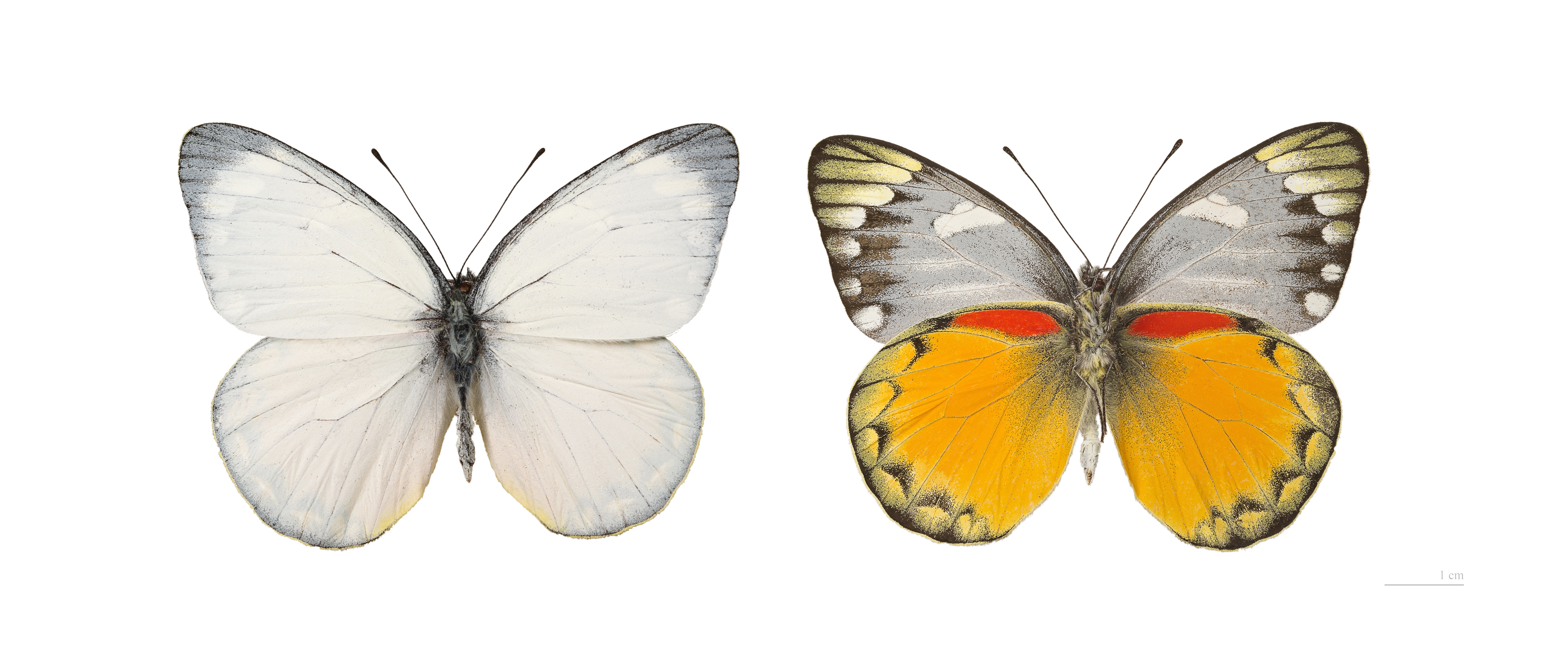 ♂ - Two views of same specimen Locality: Flores Indonesia (TL).